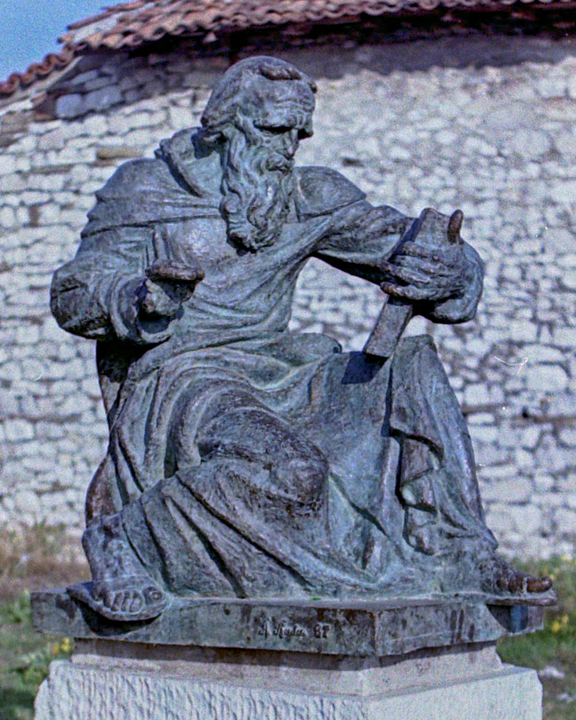 Statue of Albanian painter Onufri (sculptor: Agim Rada, 1987)